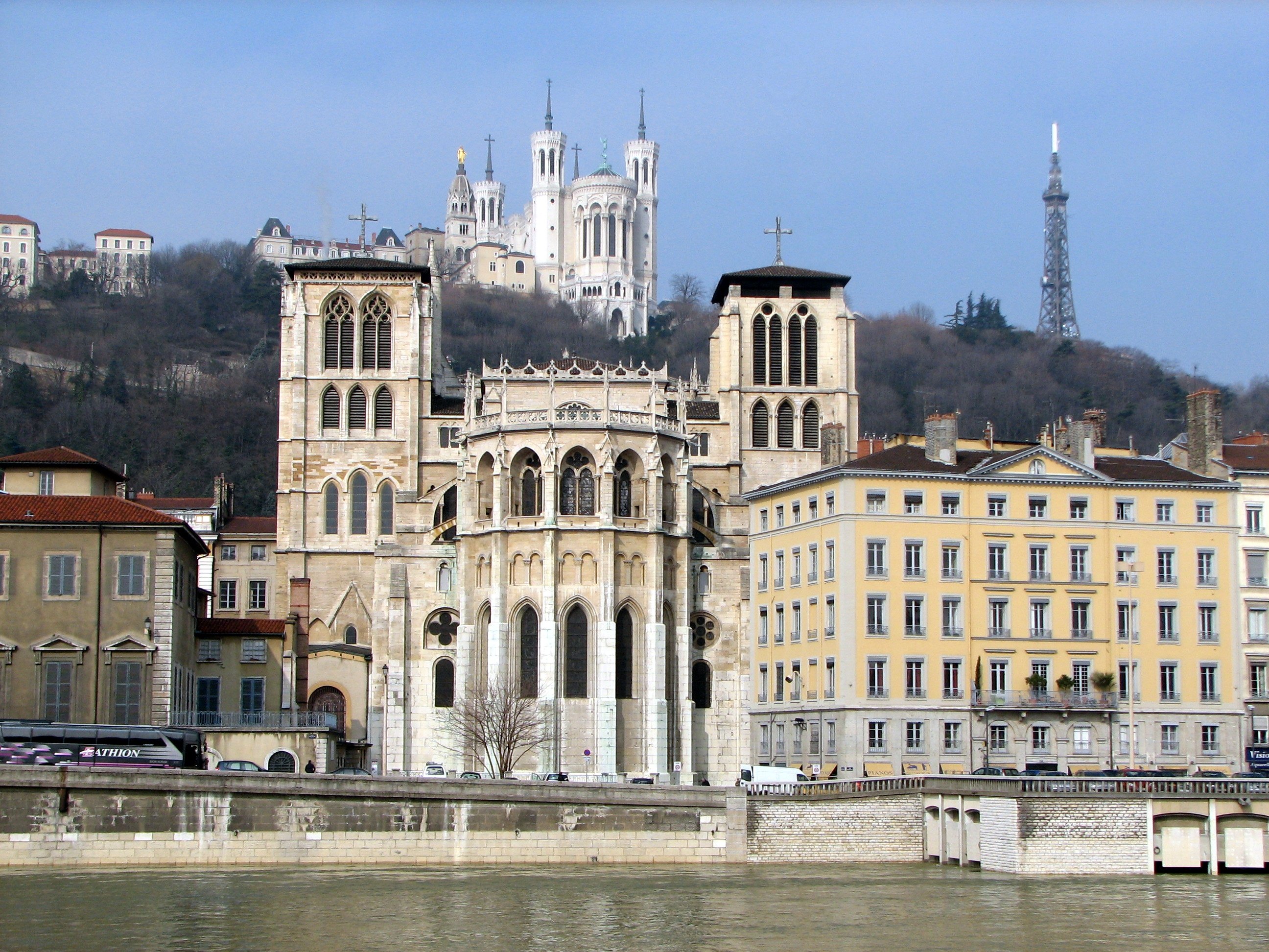 Three of the main sights in Lyon, the Cathedral St-Jean (near the river La Saone), the Basilica Notre Dame de Fourviere (on top of the hill), and the Tour métallique de Fourvière (to the right of the Basilica on top of the hill)